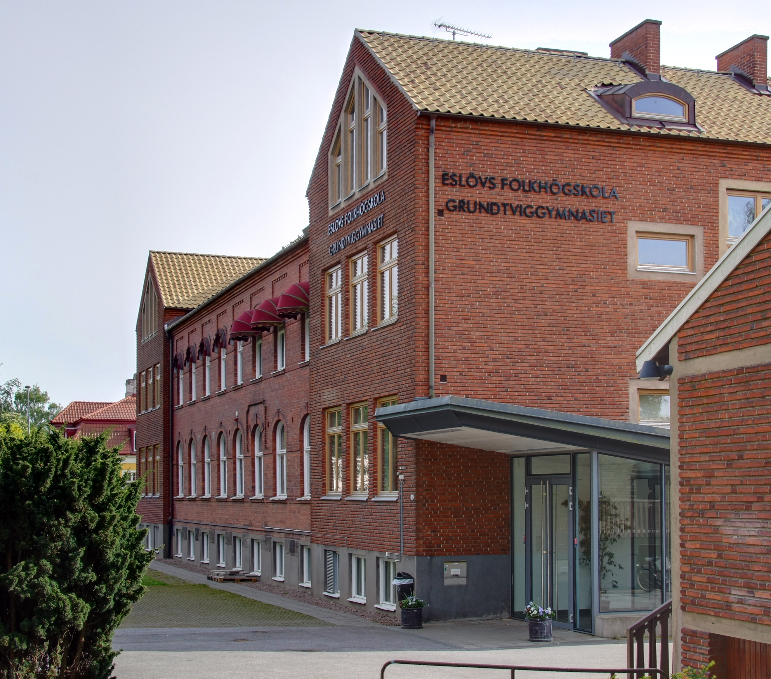 Eslövs folkhögskola, a folk high school in Eslöv, Sweden